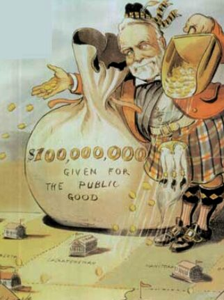 Andrew Carnegie's philanthropy as golden shower. Puck magazine cartoon by Louis Dalrymple. published New York City 1903